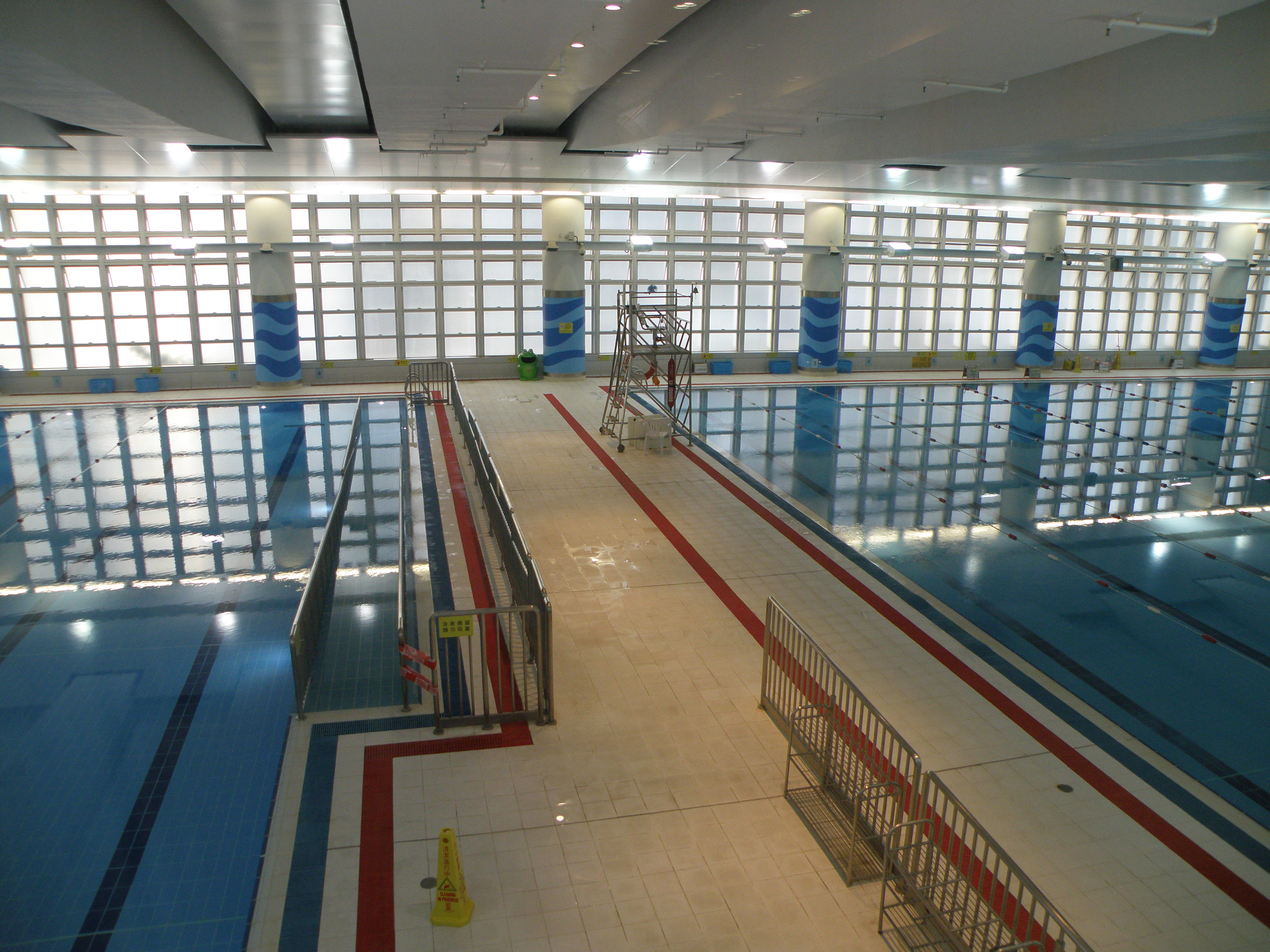 Siu Sai Wan Swimming Pool in Siu Sai Wan, Hong Kong.